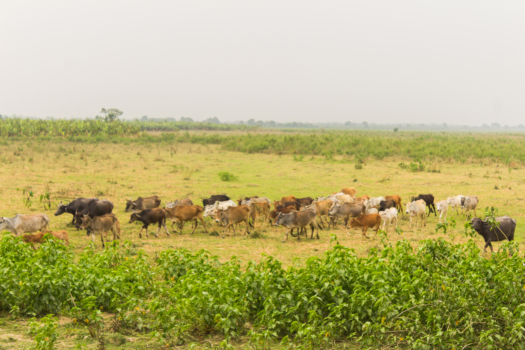 Animals feeding at Koshi Tappu Wildlife Reserve.